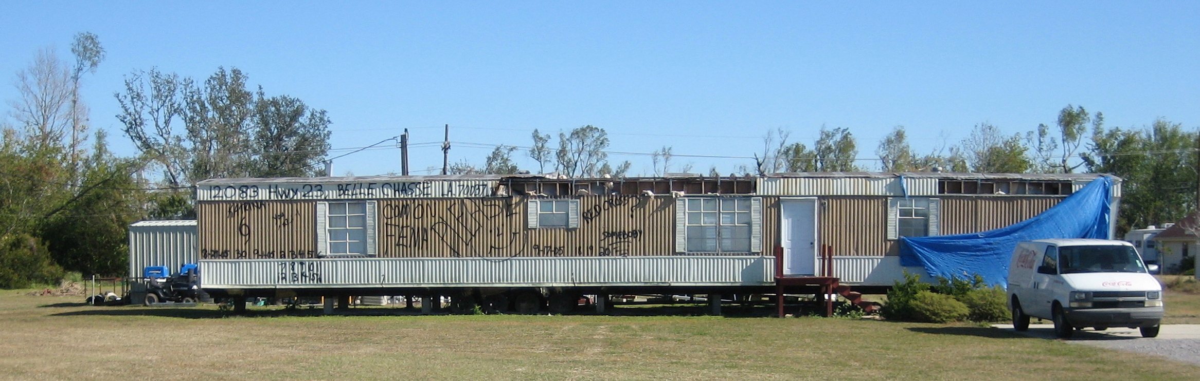 Trailer in Jesuit Bend, Louisiana with Hurricane Katrina related graffiti, asking for help from FEMA, the Red Cross, or anyone.